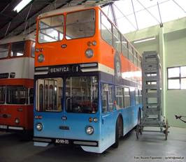 Núcleo 2